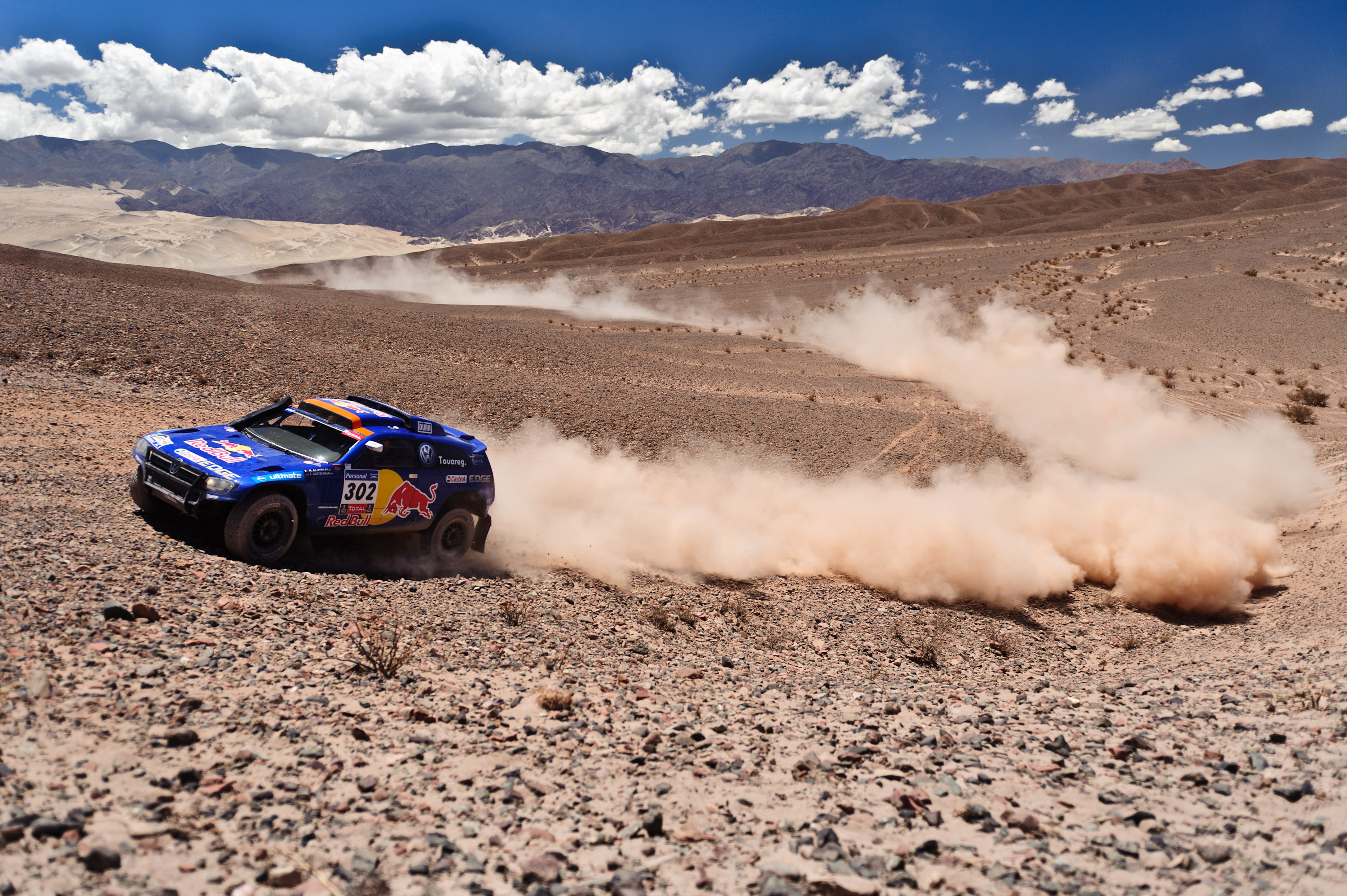 Nasser Al-Attiyah (driver) and Timo Gottschalk (co-driver) in their VW Race Touareg 3 during he 10th stage of 2011 Dakar Rally between Copiapo, Chile and Chilecito, Argentina.